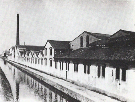 Elvetica workshops, Milano